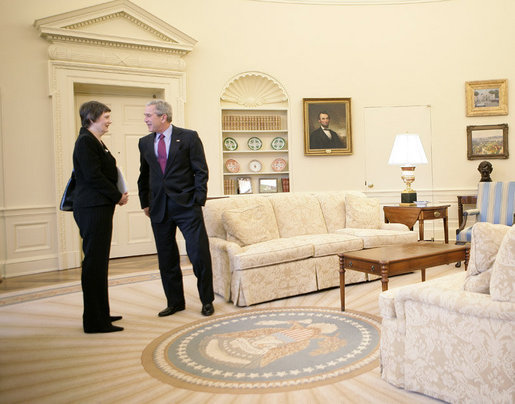 President George W. Bush meets with Prime Minister Helen Clark of New Zealand in the Oval Office